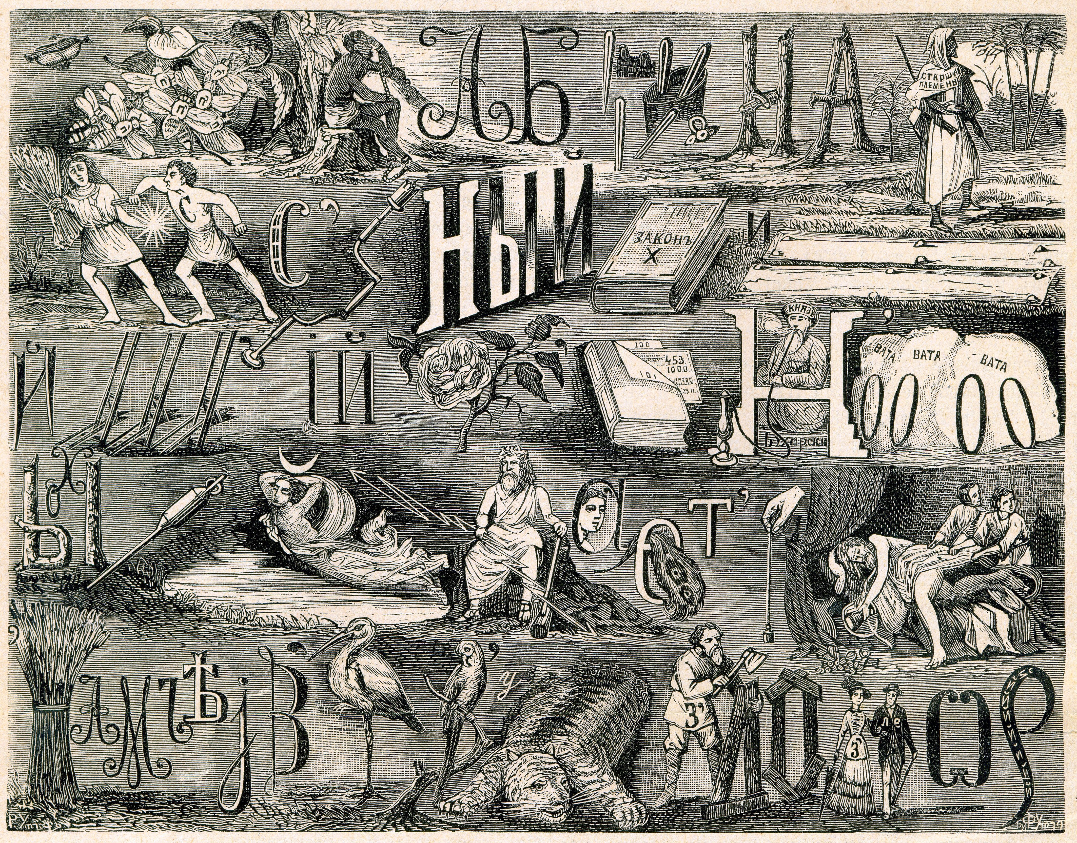 Rebus from Russian spiritual magazine "Rebus"